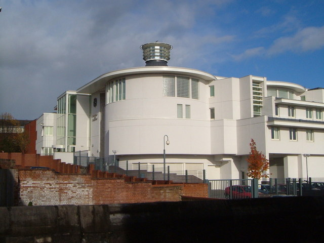 Exeter Combined Court Centre. The new Exeter Crown and County Courts building, on the site of a former car park between Southernhay and Western Way, replacing the facilities at Law Courts in Exeter Castle. The move took place in November 2004.